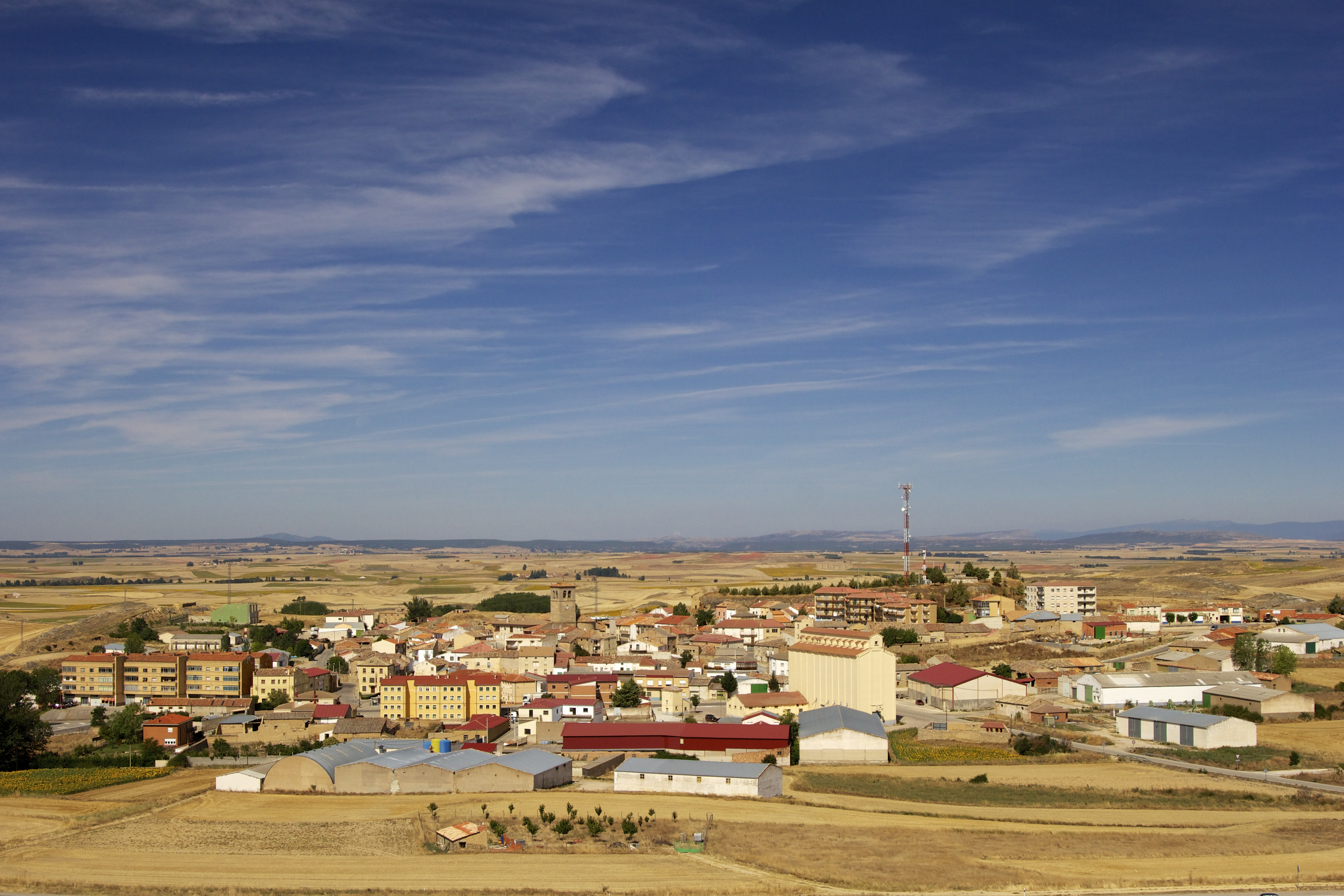 General view of the town of Gómara in Soria, Spain. This photo was taken from the "Cerro de la Horca" in August 2013.